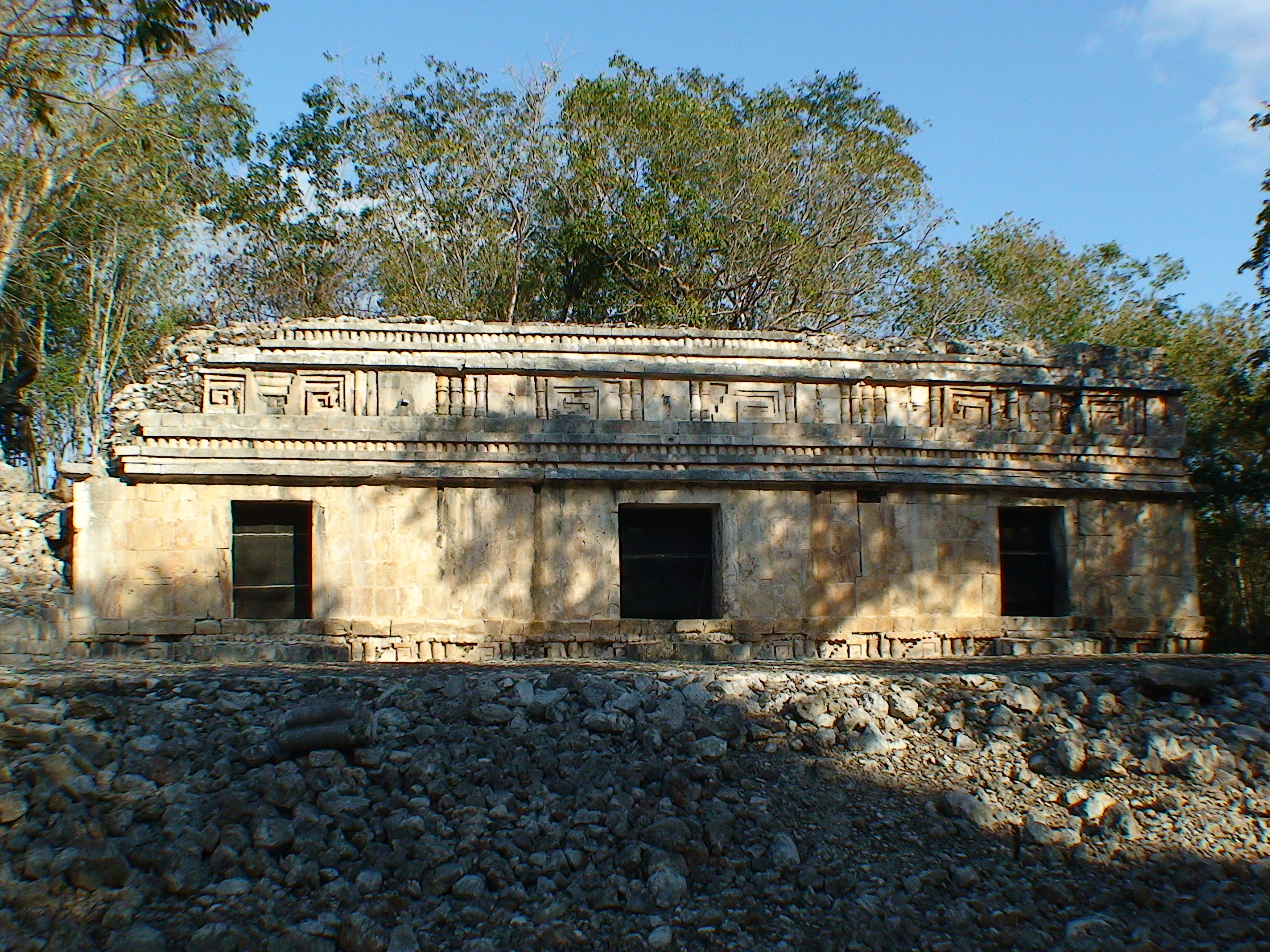 Chunhuhub, building 2, Campeche, Mexico